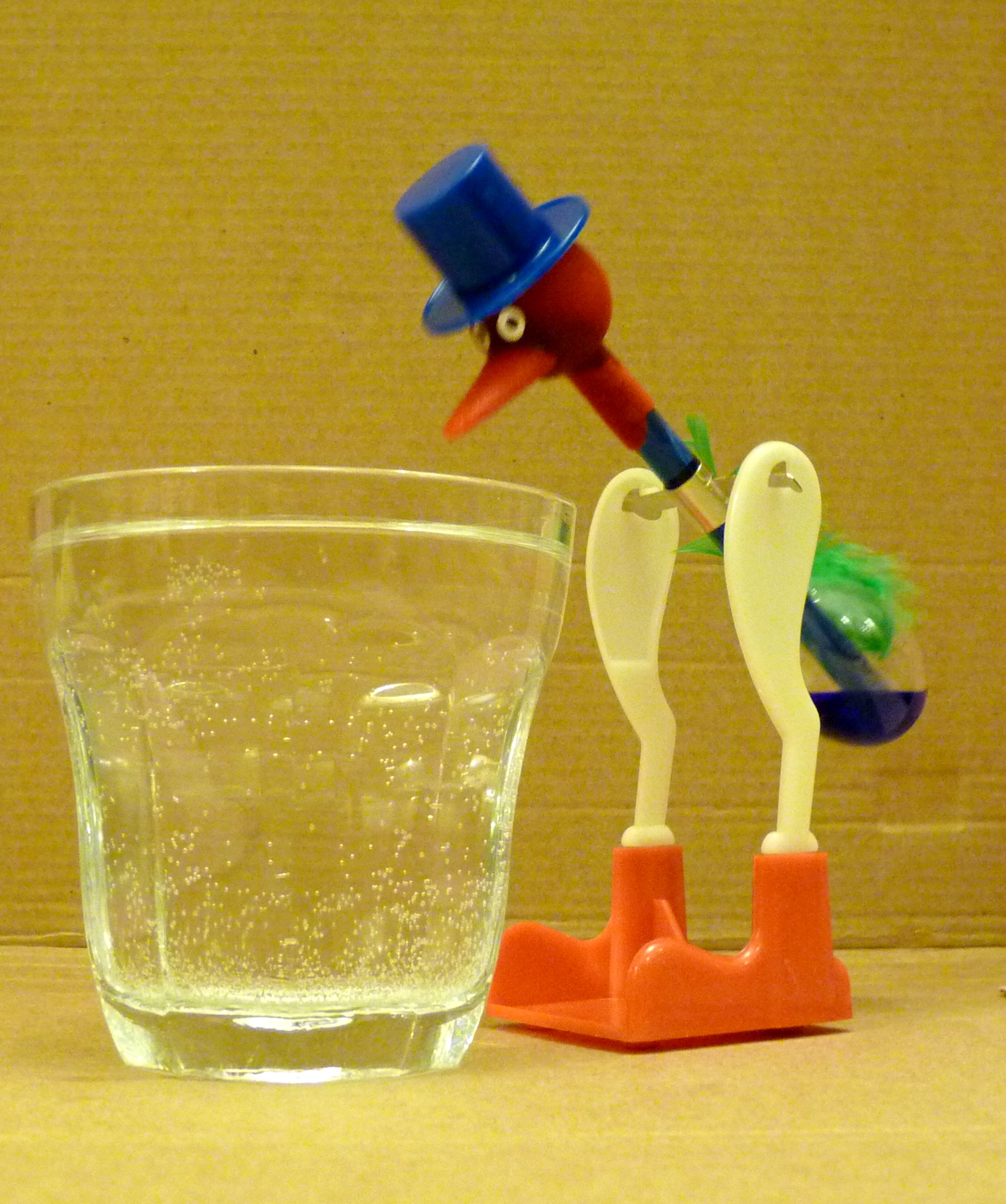 Example of Sipping Bird, also known as a dipping bird, dippy bird, drinking bird, tipping bird, tippy bird, thermodynamic bird.